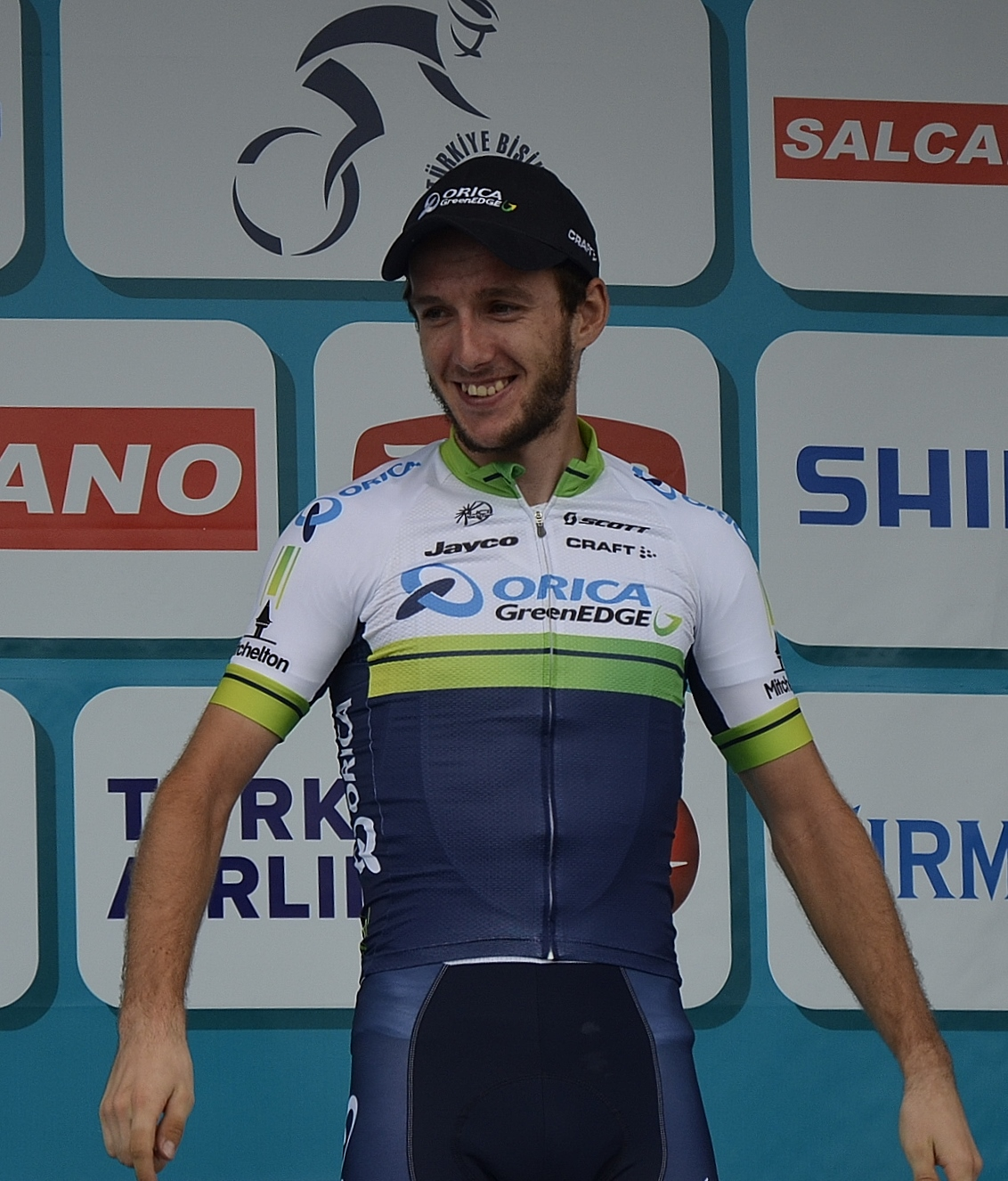 Adam Yates at Tour of Turkey 2014